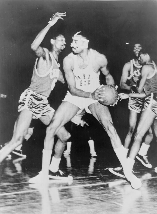 Wilt Chamberlain and Bill Russell during a basketball game